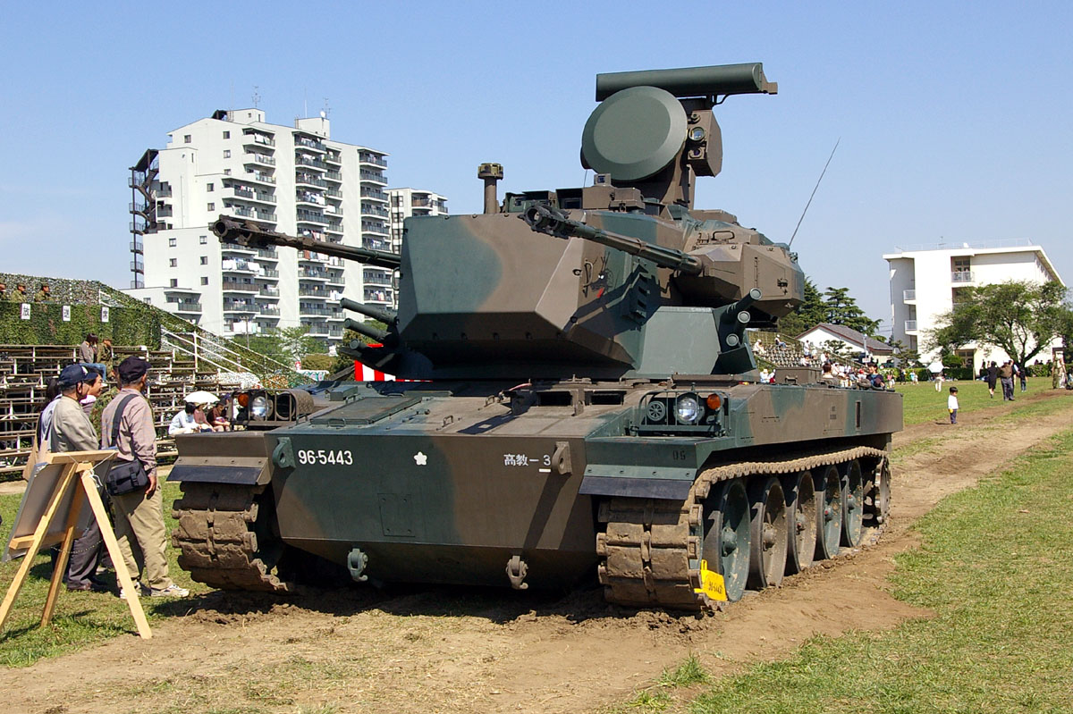 Taken by Los688,29-Apr-2007,JGSDF Camp-Shimoshizu.JGSDF Type87 Self-Propelled Anti-Aircraft Gun,Air Defence Artillery School unit.PD-self. ja:2007年4月29日、投稿者撮影。陸上自衛隊下志津駐屯地記念行事。87式自走高射機関砲、高射教導隊。